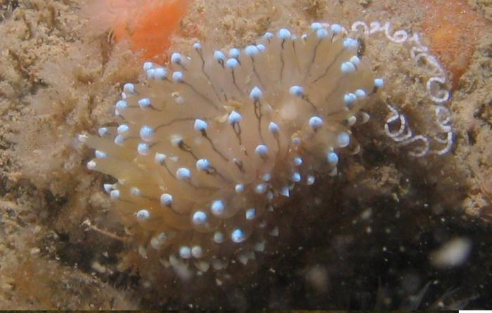 Janolus cristatus nudibranch depositing eggs, photographed in the Oosterschelde, the Netherlands. NL: Blauwtipje met eieren.